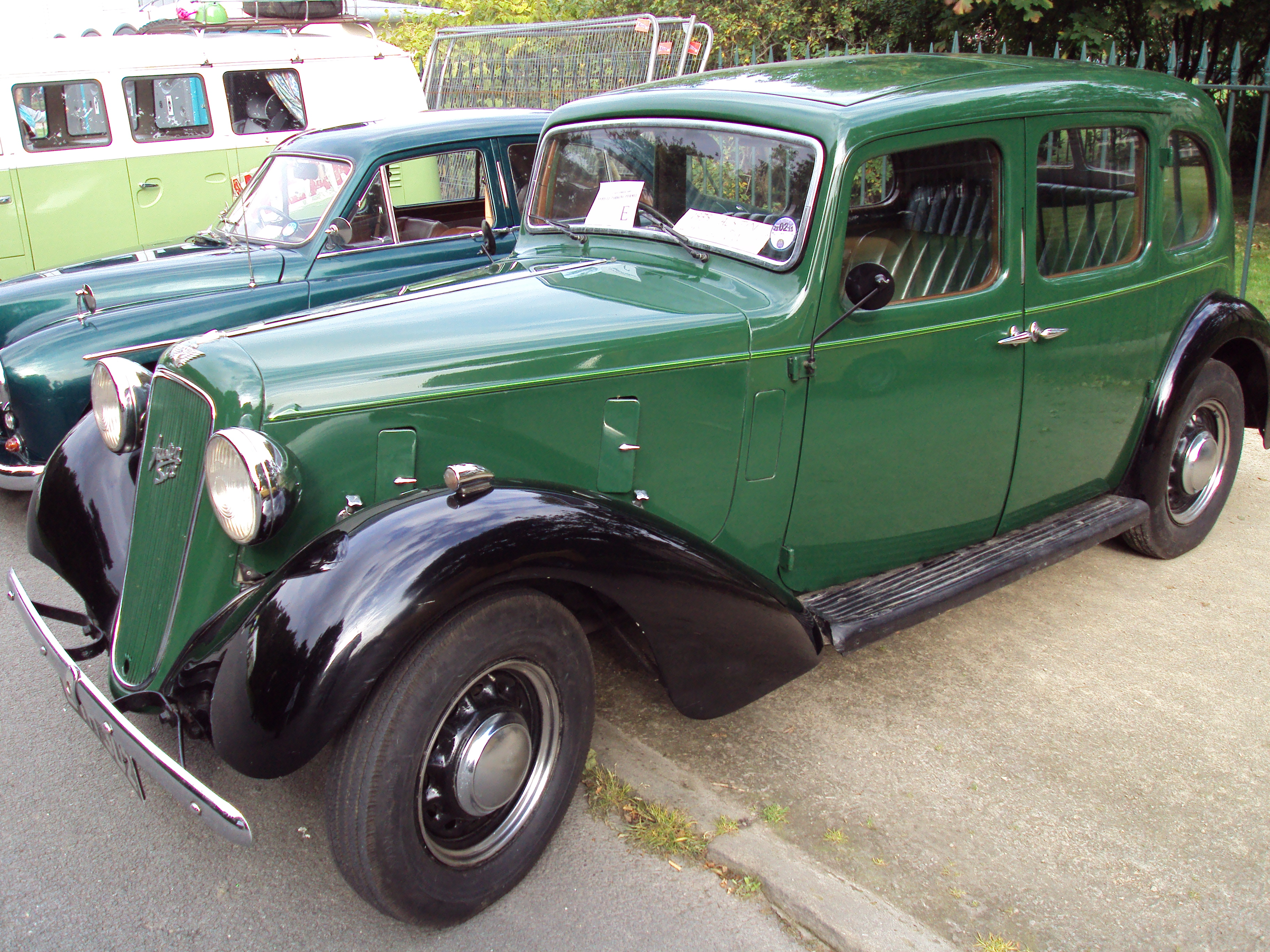 Austin Fourteen Goodwood(DVLA) first registered 31 December 1938, 1939 cc. Note this is the earlier model with smaller doors.Vintage car at the 2009 Festival of Transport, Birkenhead Park, Birkenhead, Merseyside, England.